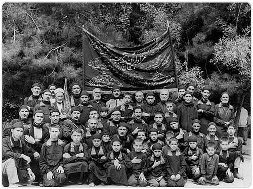 A historic image from zanjan azam hussainia